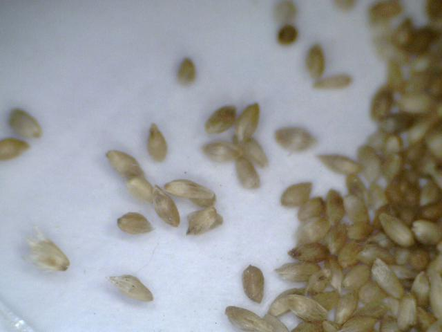 magnified seeds of phleum pratense